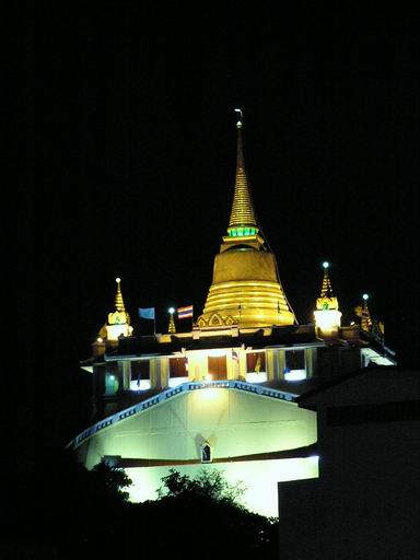 Illumination of Golden Mountain at night